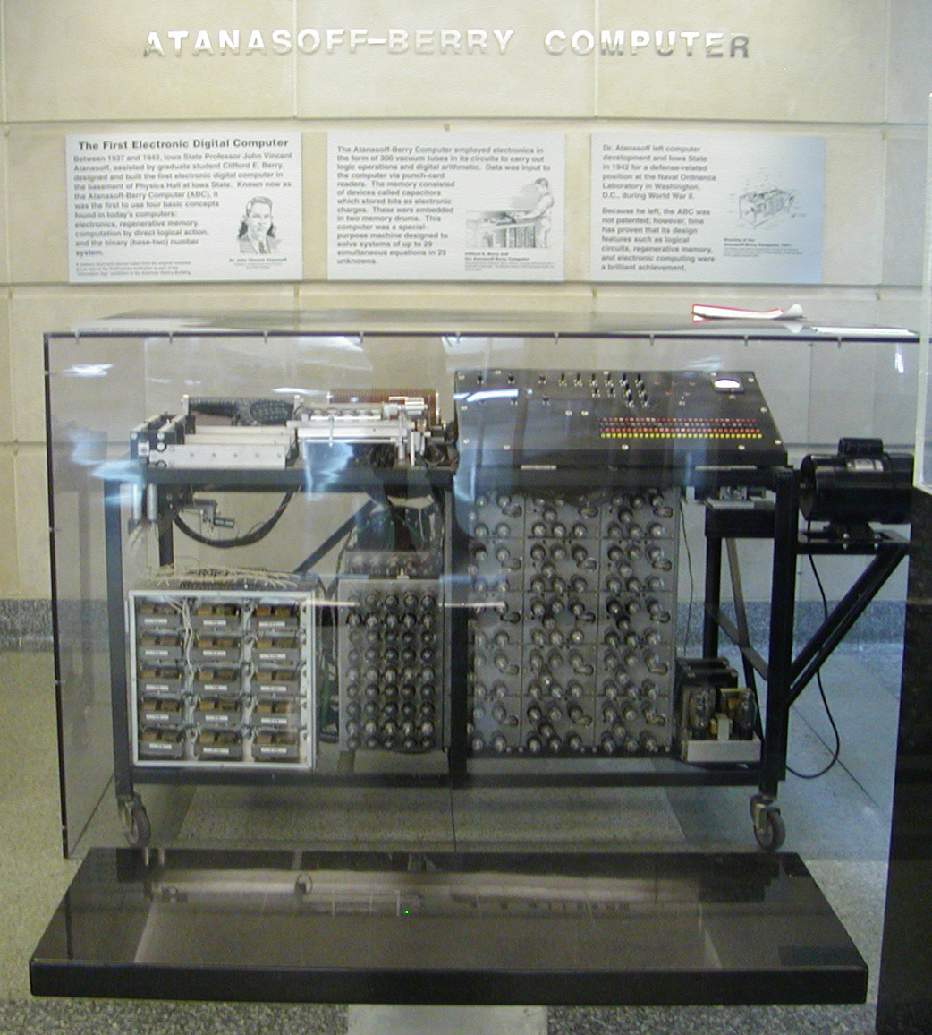 Atanasoff-Berry Computer at Durhum Center, Iowa State University